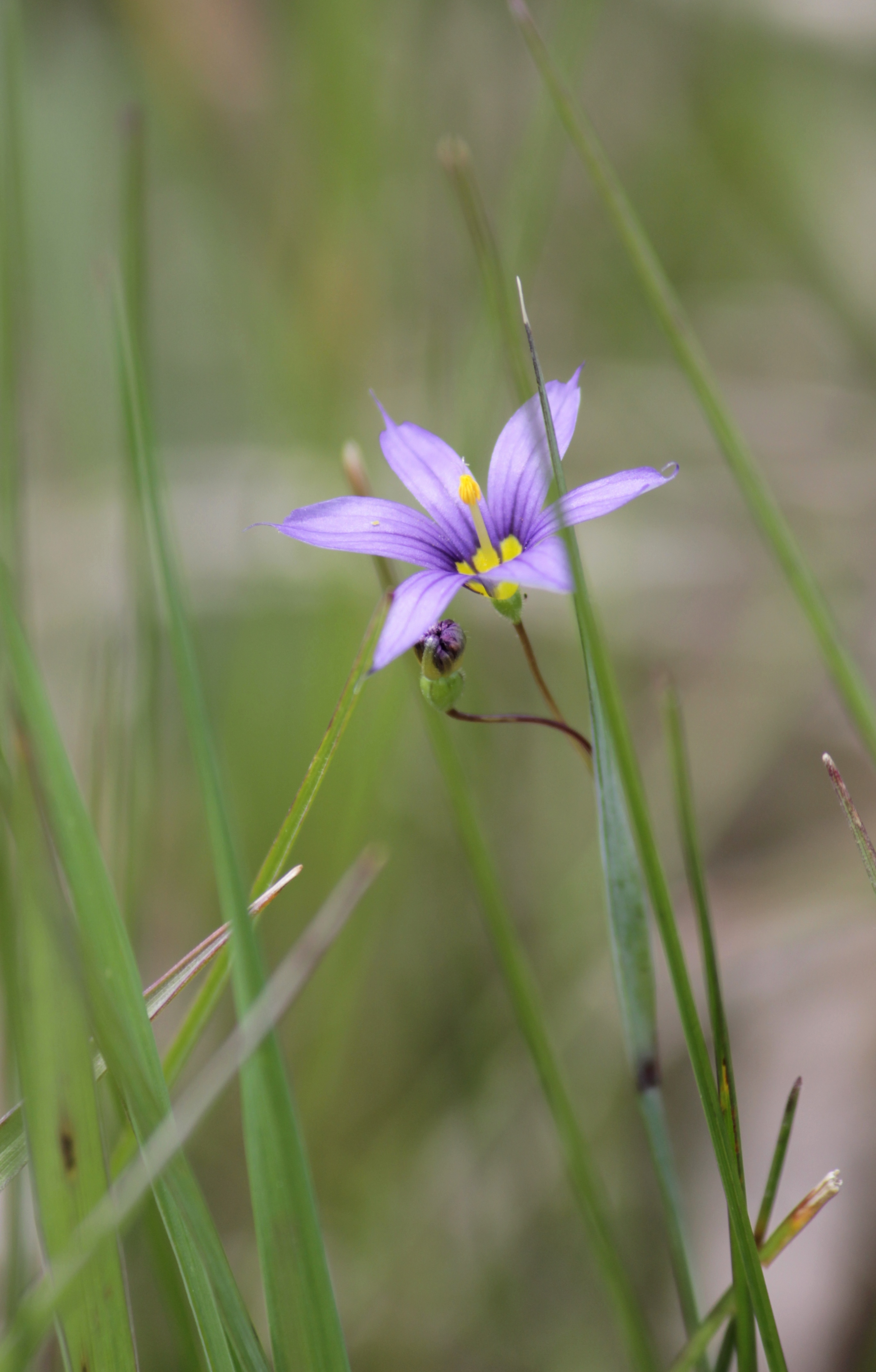 Blue-eyed Grass (Sisyrinchium montanum) is a native flower to North Dakota and other parts of the U.S. A small member of the iris family, flowers can be found in prairies during the early spring. Photo Credit: Krista Lundgren/USFWS